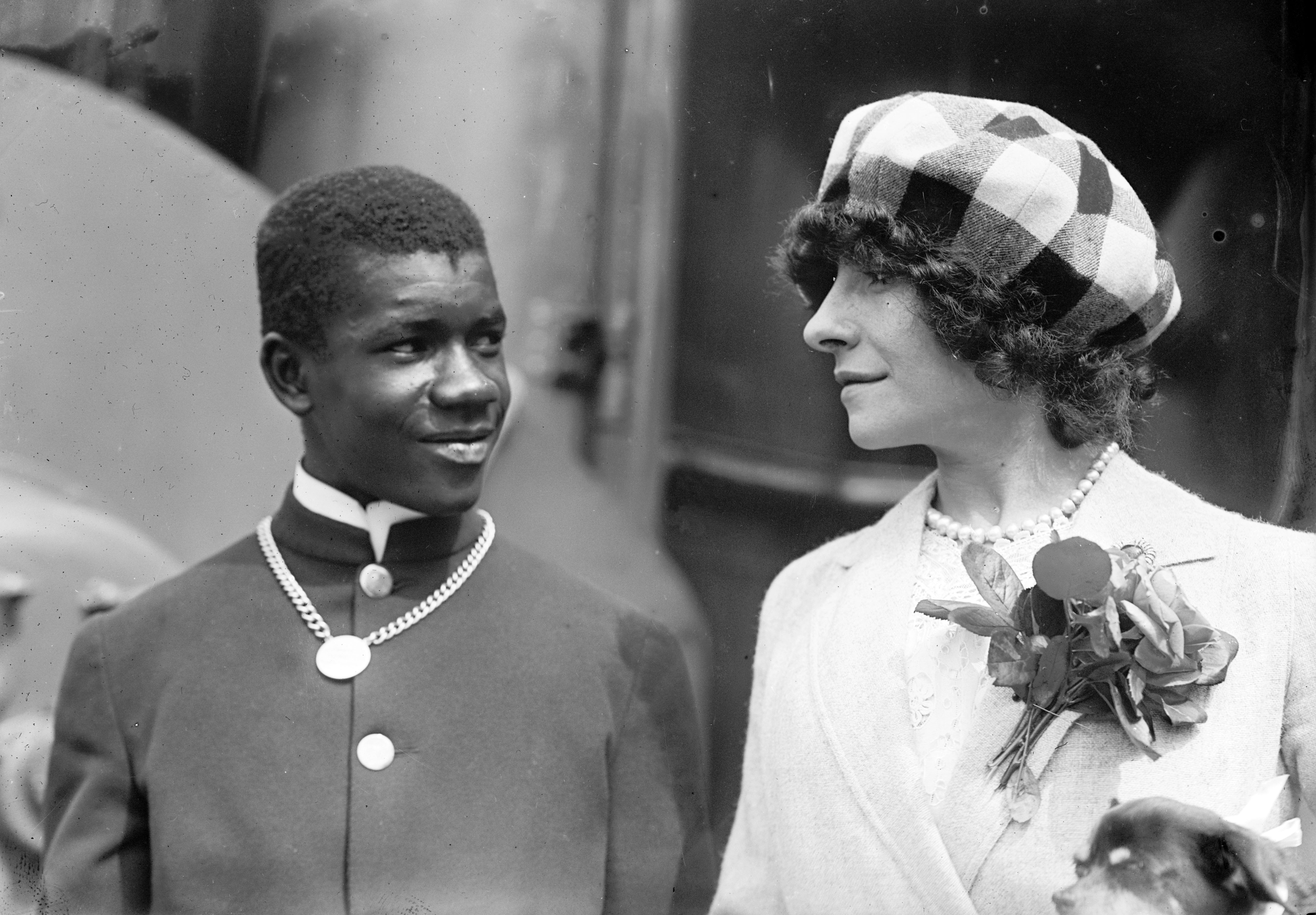 Original title: 'Polaire with negro, her "black slave".' From the George Grantham Bain collection at the Library of Congress. Polaire was a French national and actress.